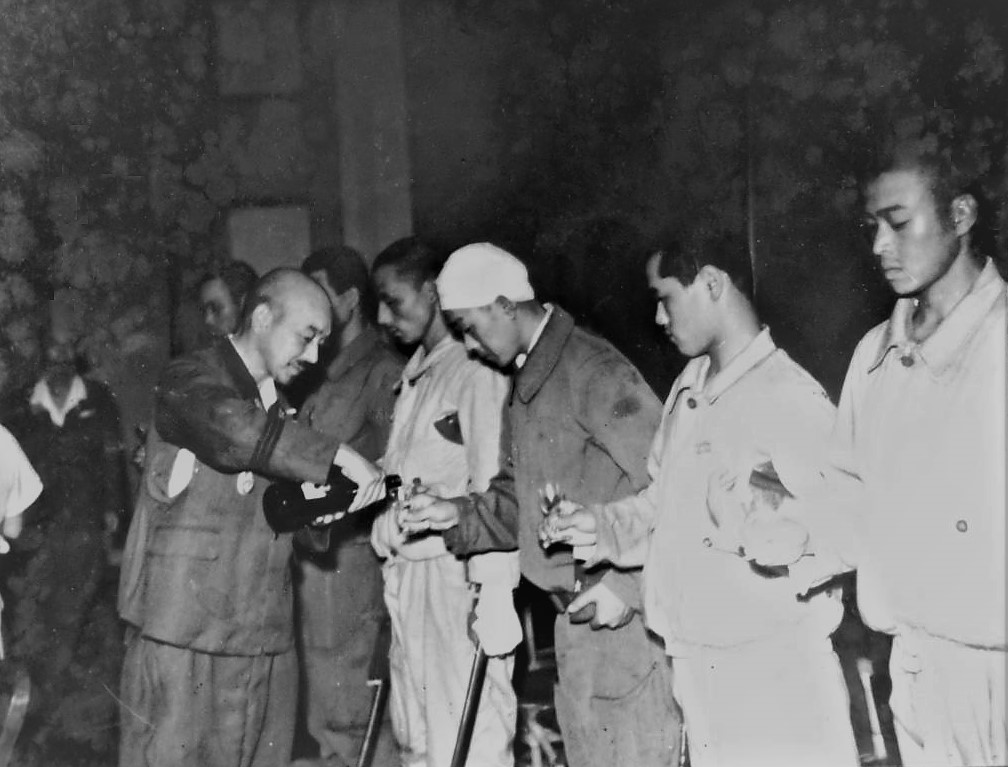 Vanda Squadron toast with Commander Tominaga